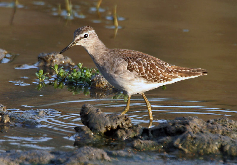 Wood Sandpiper Tringa glareola at Bharatpur, Rajasthan, India.